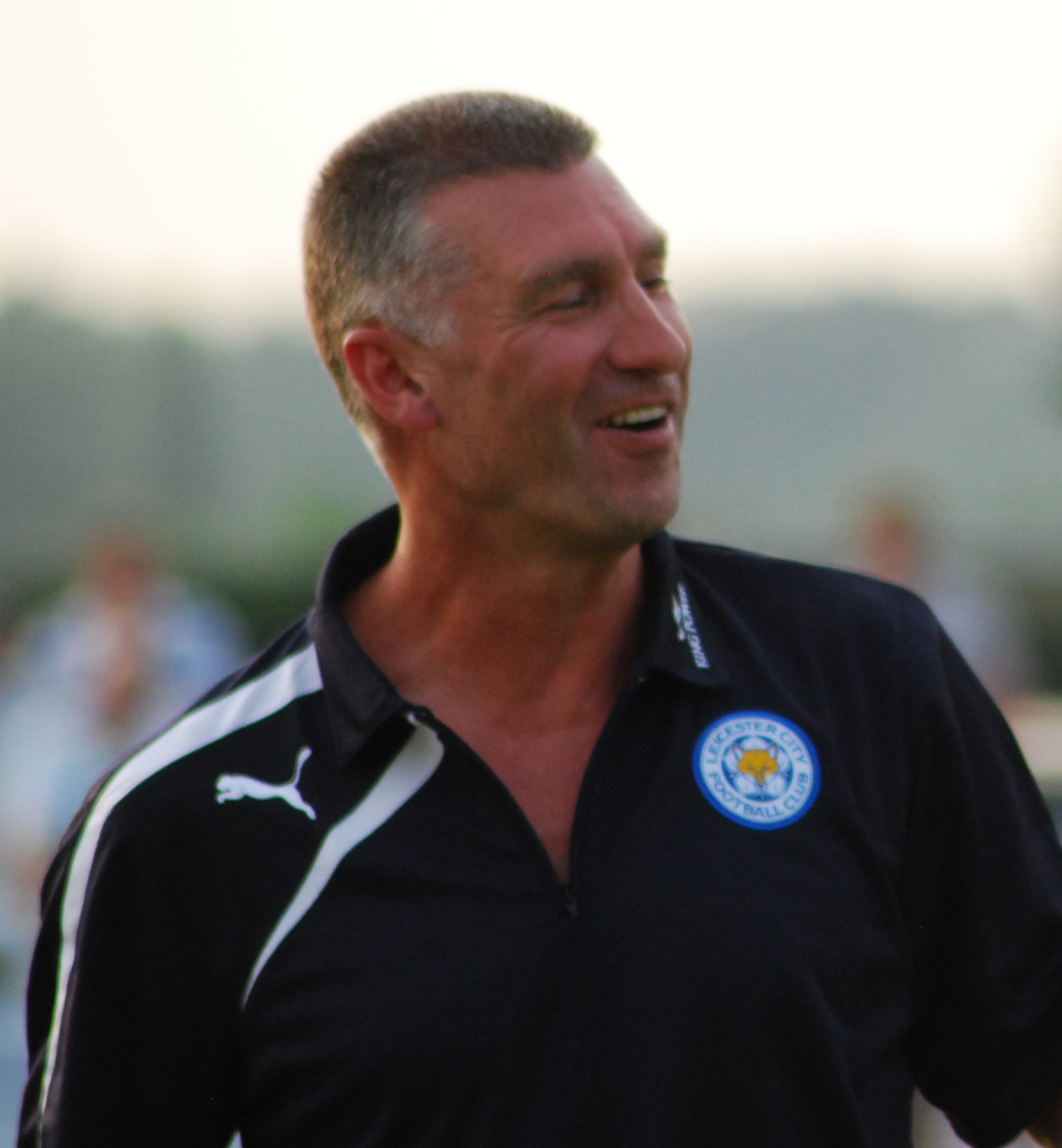 Pre Season 2013